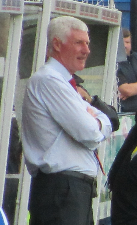 Nigel Worthington during York City's match against AFC Wimbledon at Bootham Crescent, York on 7 September 2013